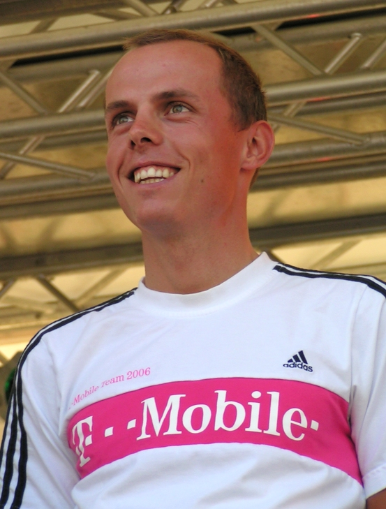 The German racing cyclist Stephan Schreck at the team presentation for the Deutschland Tour 2006 in Düsseldorf, Germany.